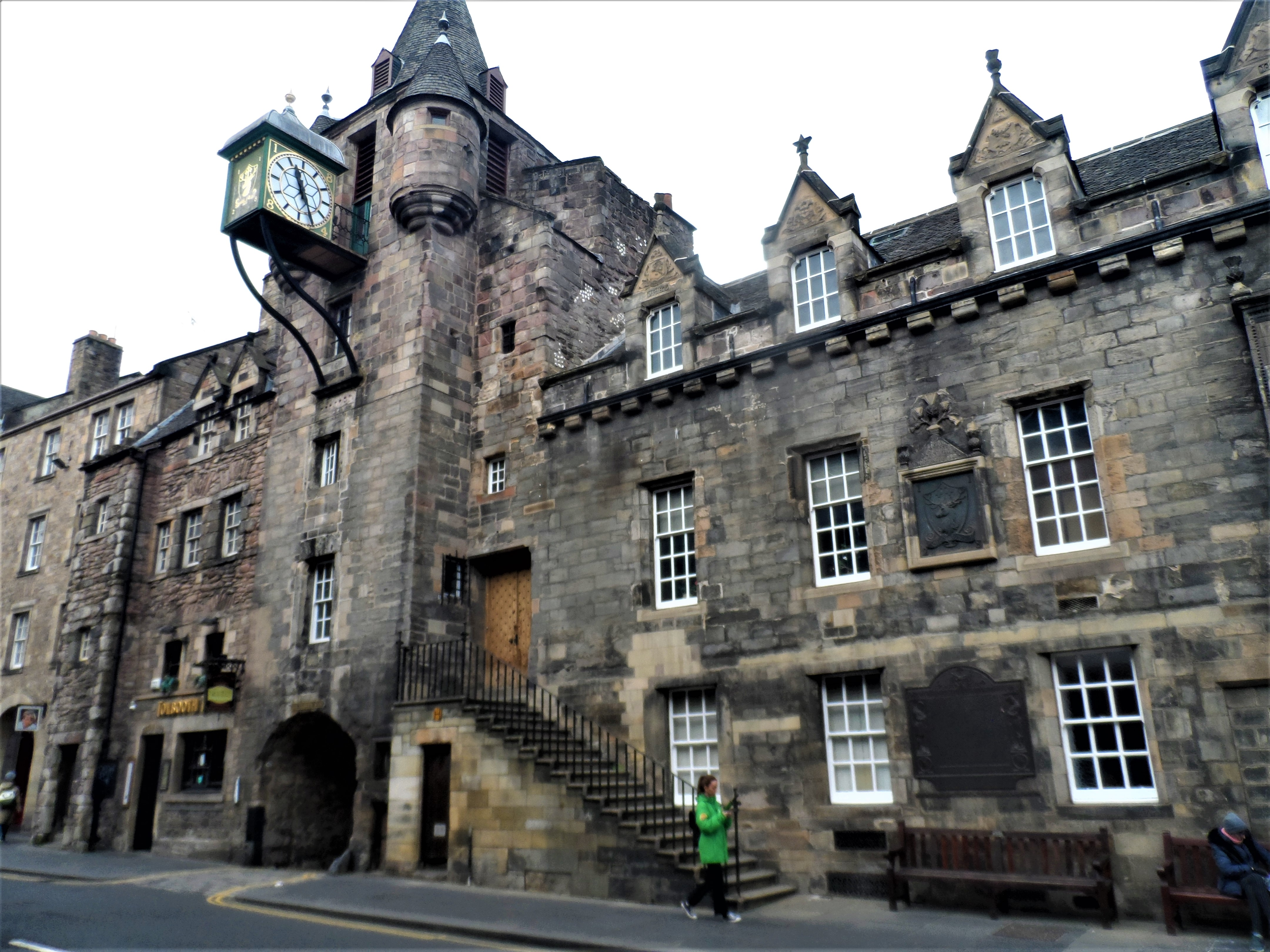 Peoples Museum Edinburgh